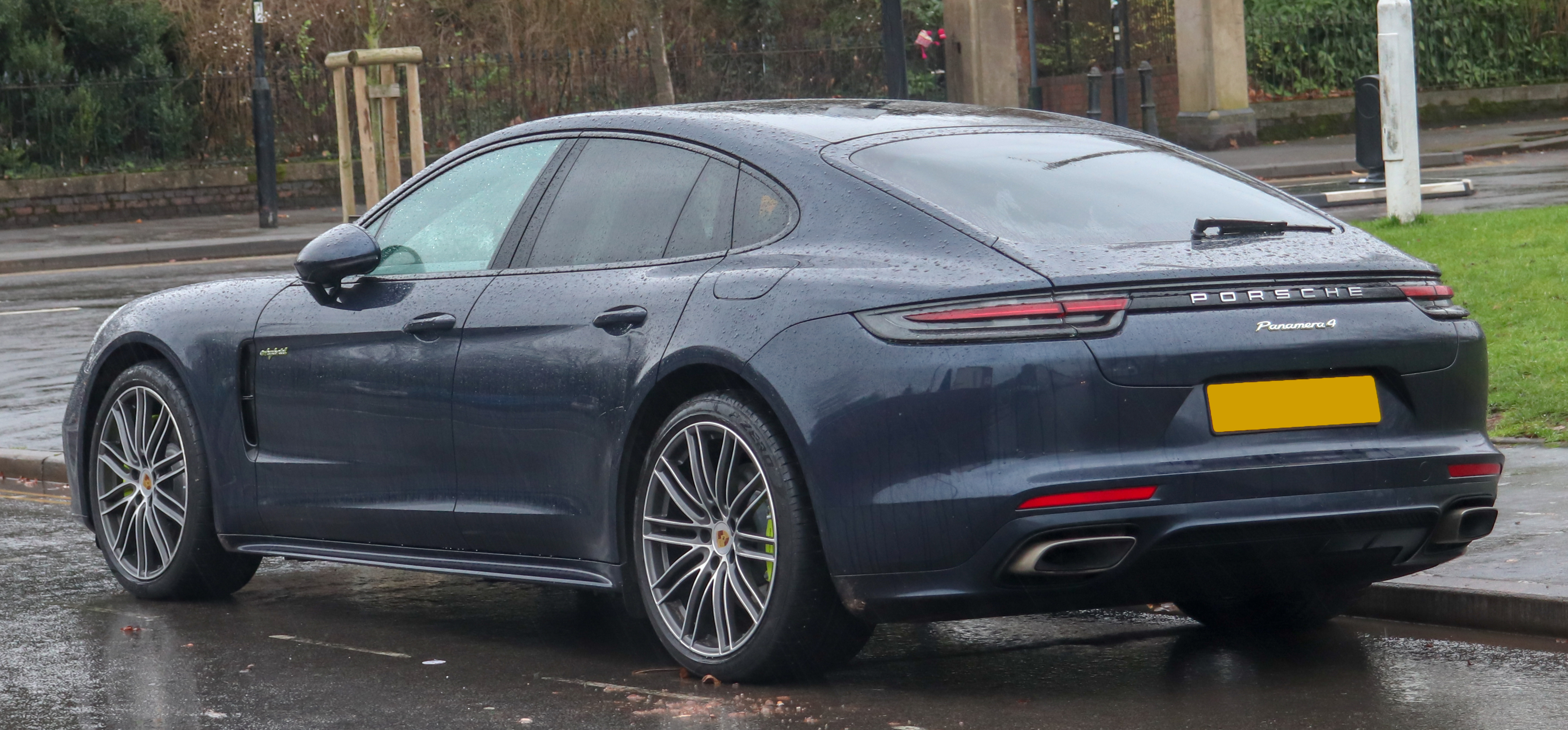 2017 Porsche Panamera E-Hybrid 4 S-A 2.9 Rear Taken in Leamington Spa